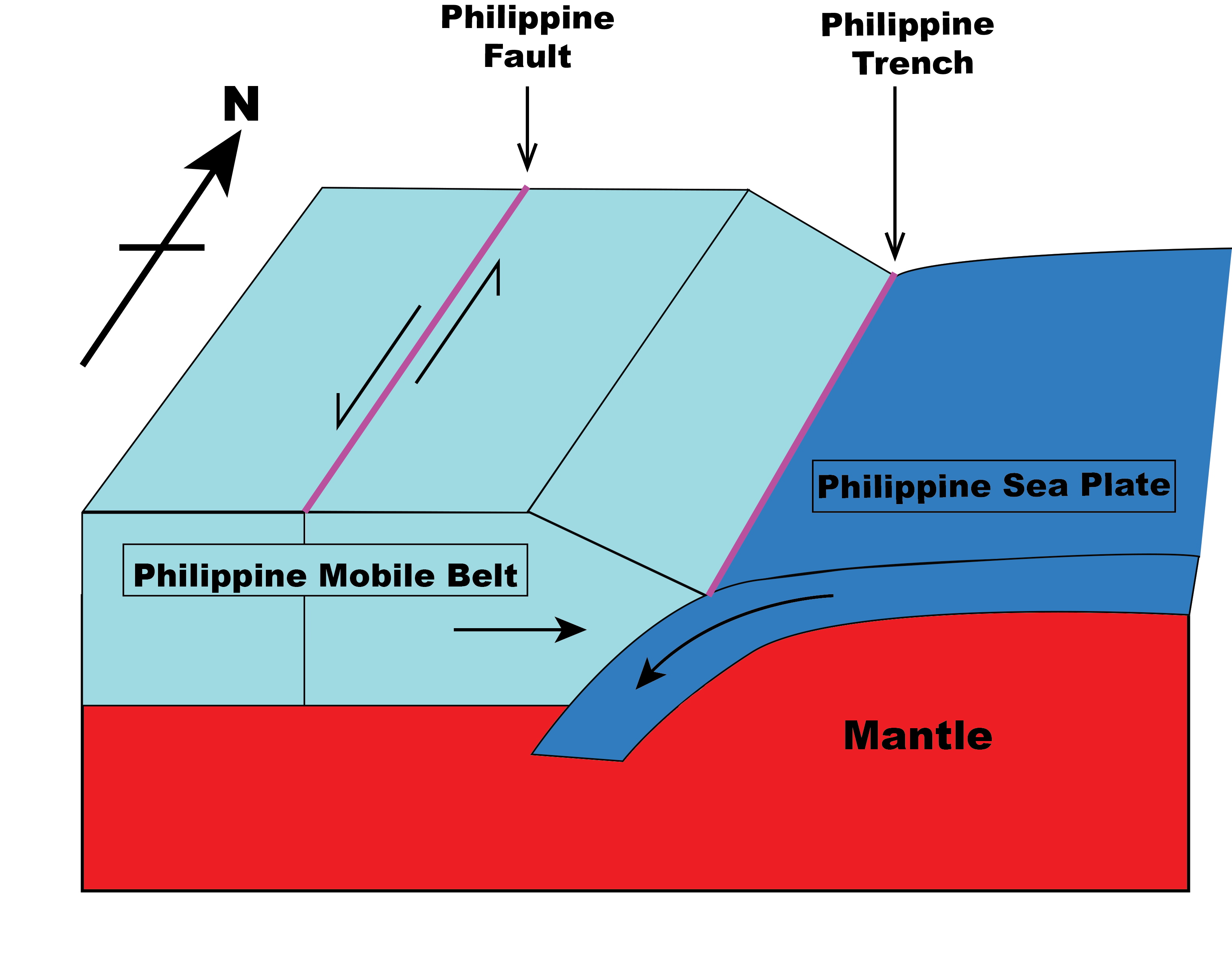 The illustration describes the shear partitioning mechanism in the Philippine Fault System and the Philippine Trench.